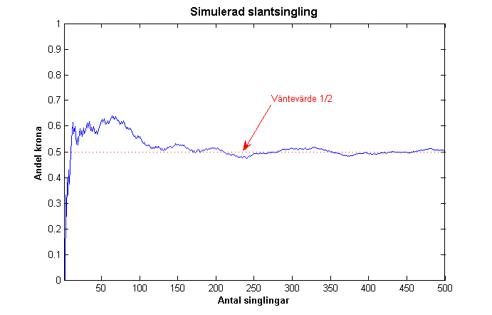 Illustration of the law of great numbers